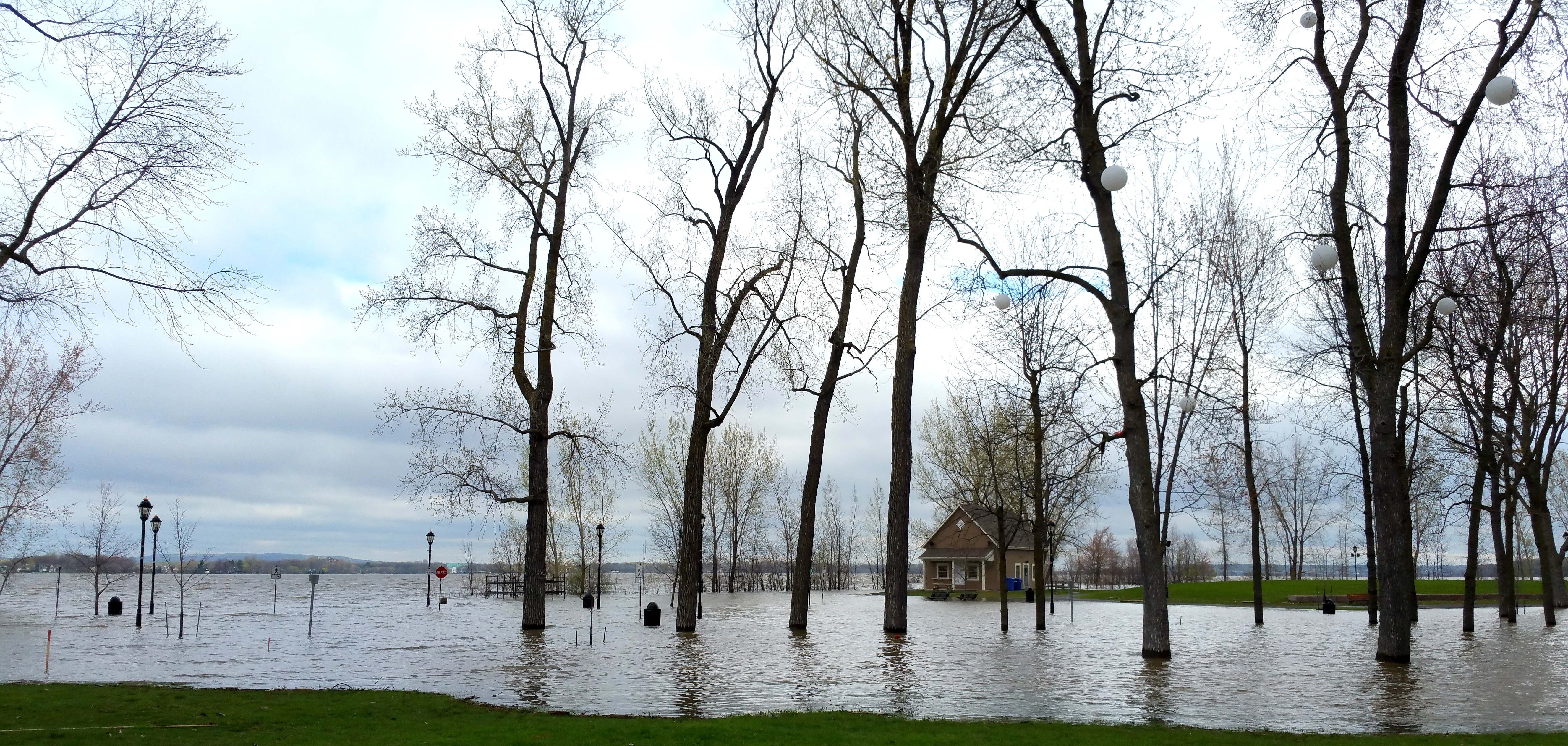 Maison-Valois Park, Saint-Charles avenue, Vaudreuil-Dorion, during 2017 Quebec floods